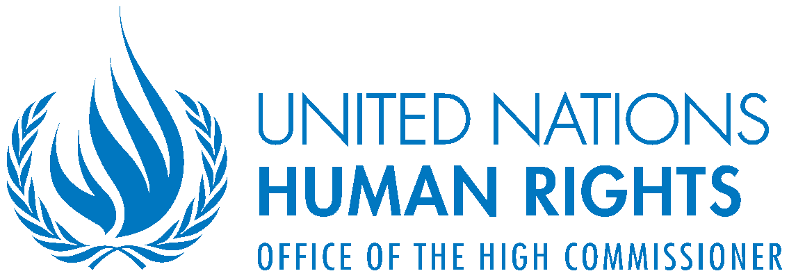 Office of the United Nations High Commissioner for Human Rights logo in blue